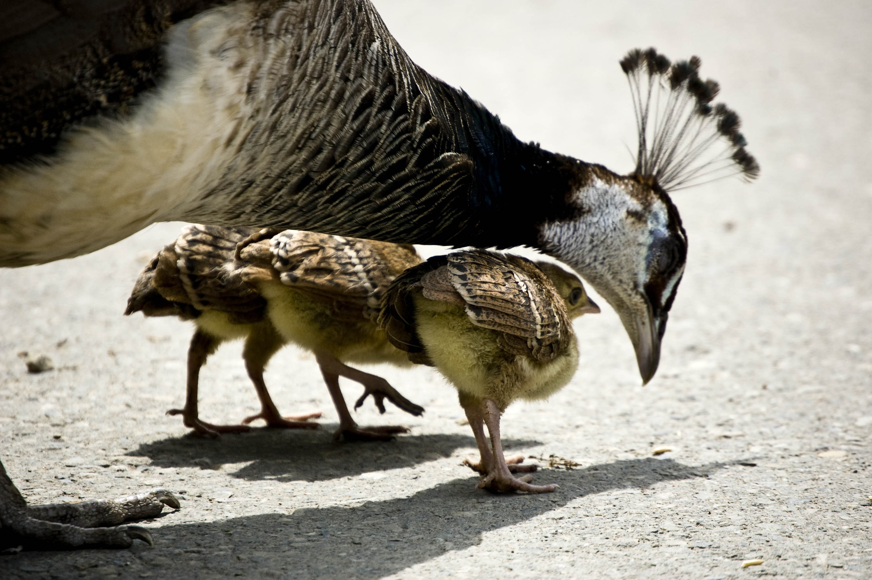 Indian Peafowl (also known as the Common Peafowl and the Blue Peafowl) at the Calgary Zoo, Calgary, Alberta, Canada. A female parent with three chicks.